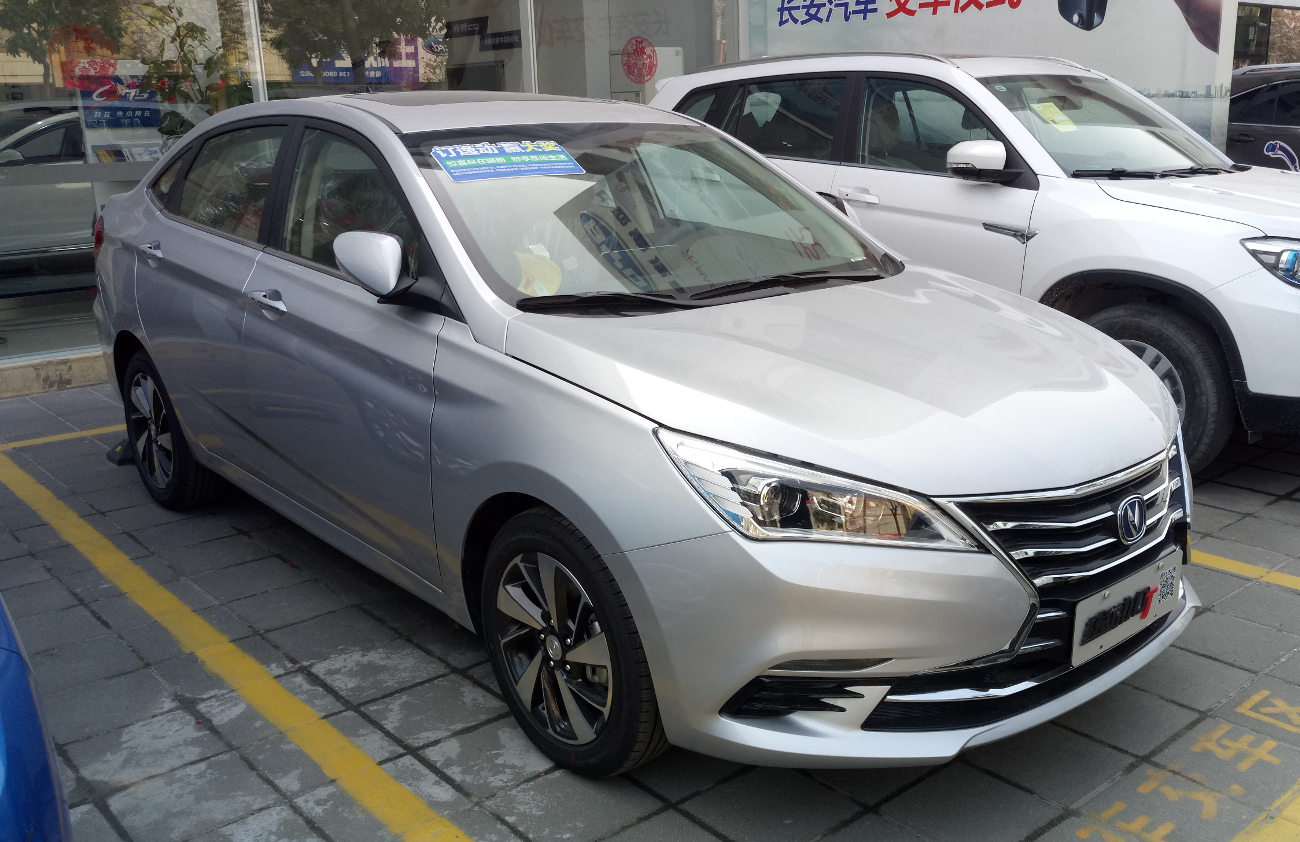 Chang'an Eado DT photographed in Guangzhou, Guangdong province, China.